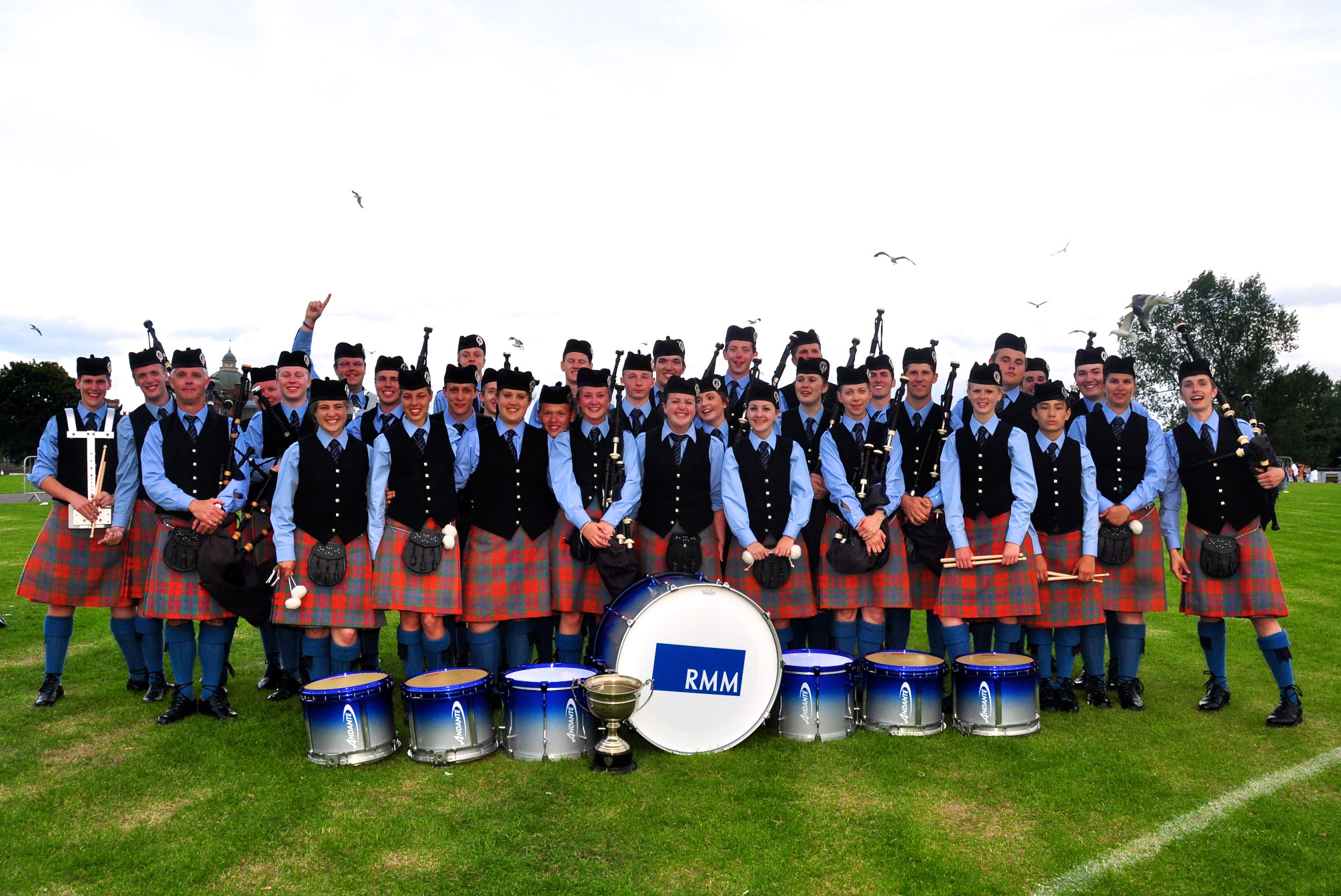 RMM3 celebrates its first place win at the World Pipe Band Championship in Glasgow 2012